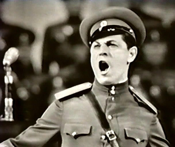 A screenshot of my father's performance of the song "The Cliff" (Utyos), 1965. This video is a part of the 35mm film tape movie of the Alexandrov Ensemble's concert in Tchaikovsky Hall, Moscow (hard copy).